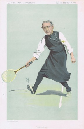 Caricature of The Rt Rev The Bishop of London DD. Caption read "In his lighter moments".